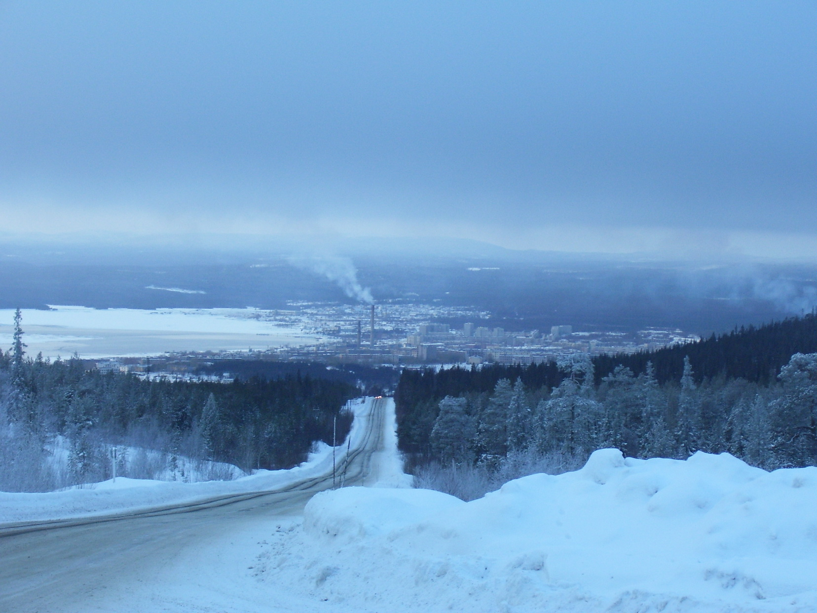 Kandalaksha